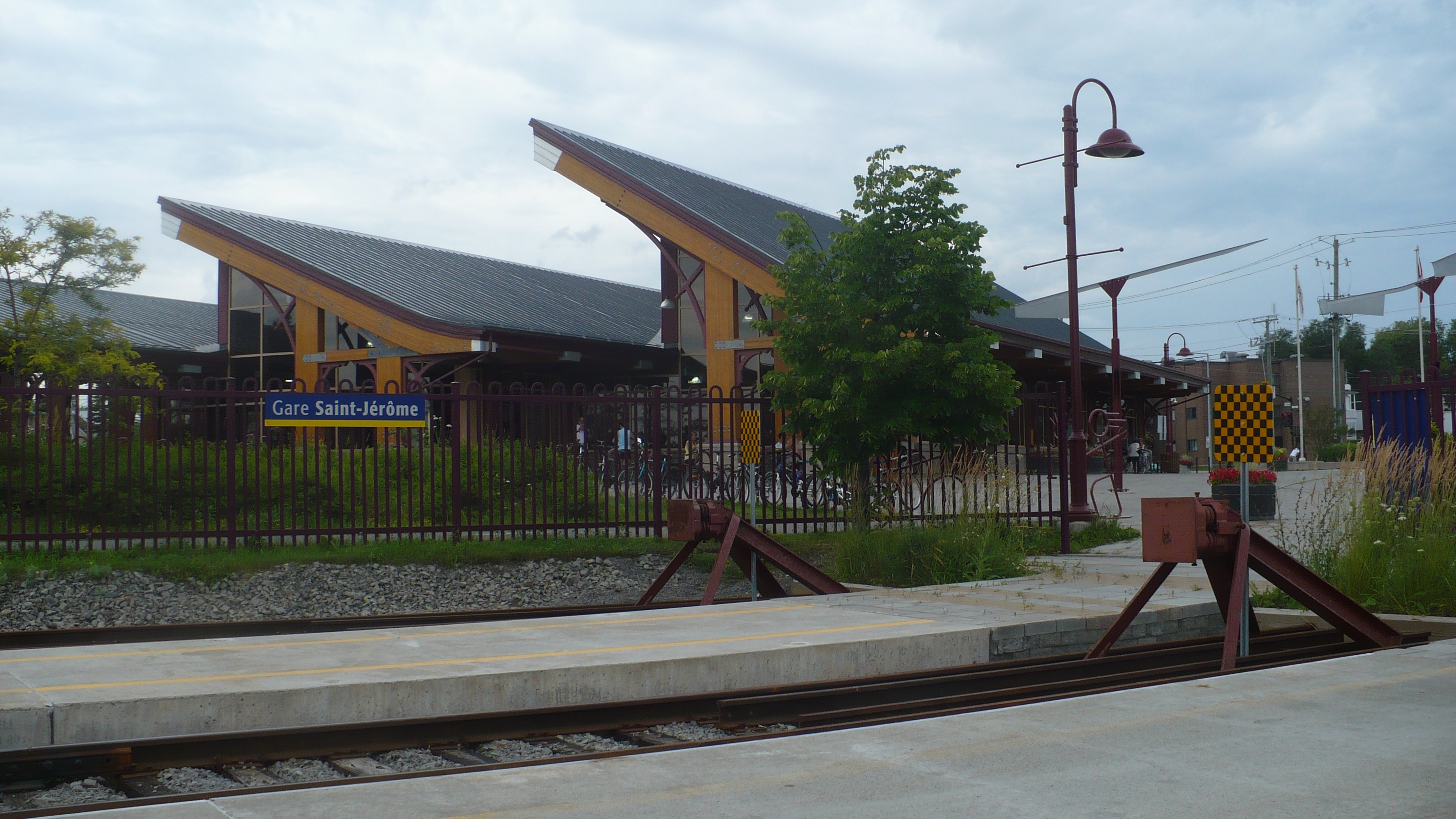 Saint-Jérôme intermodal station - the end of the line